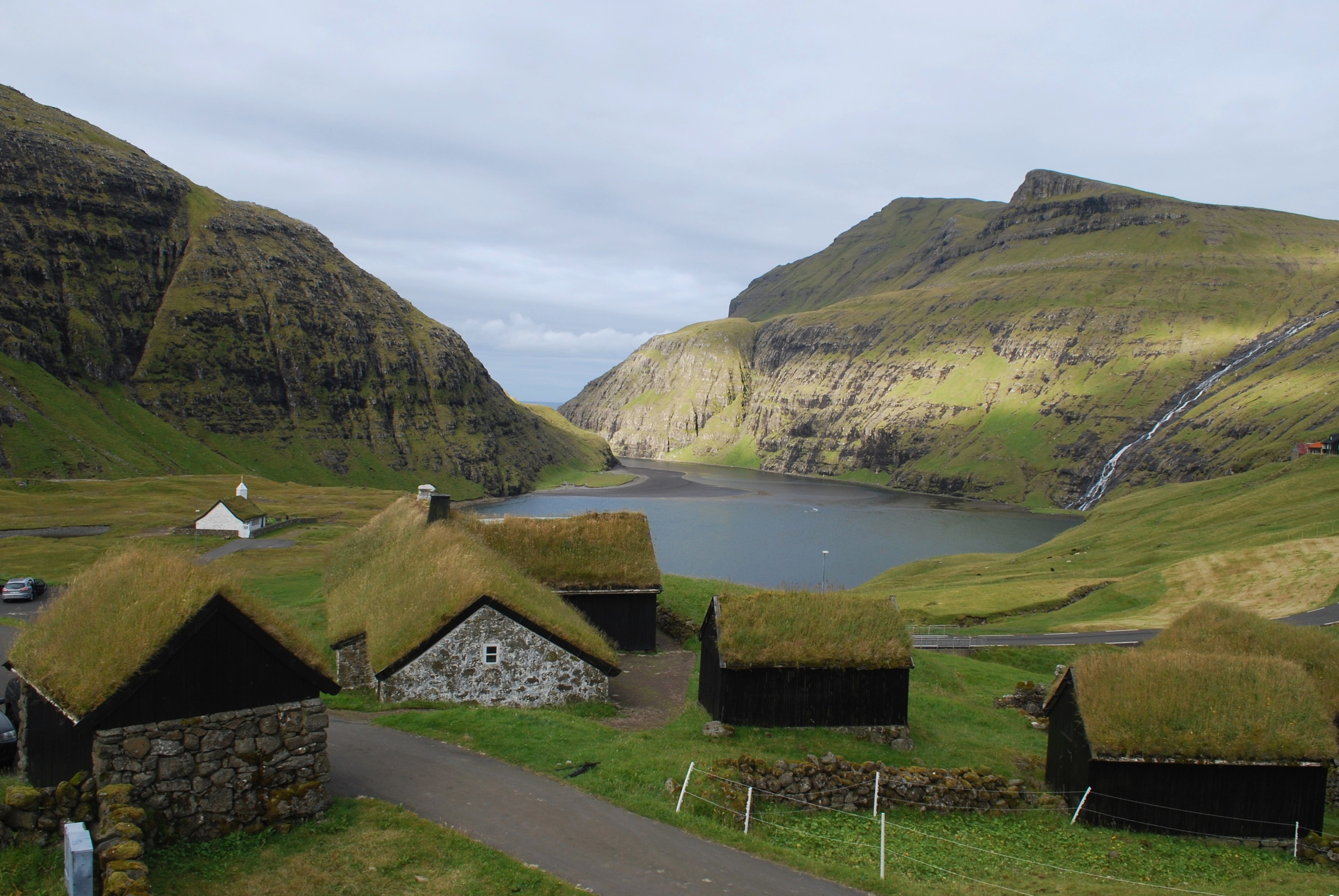 Saksun is a village near the northwest coast of the Faroese island of Streymoy.